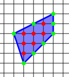 Illustration for Pick's theorem